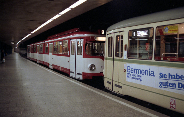 Koln: Tram in subway at DomHbf